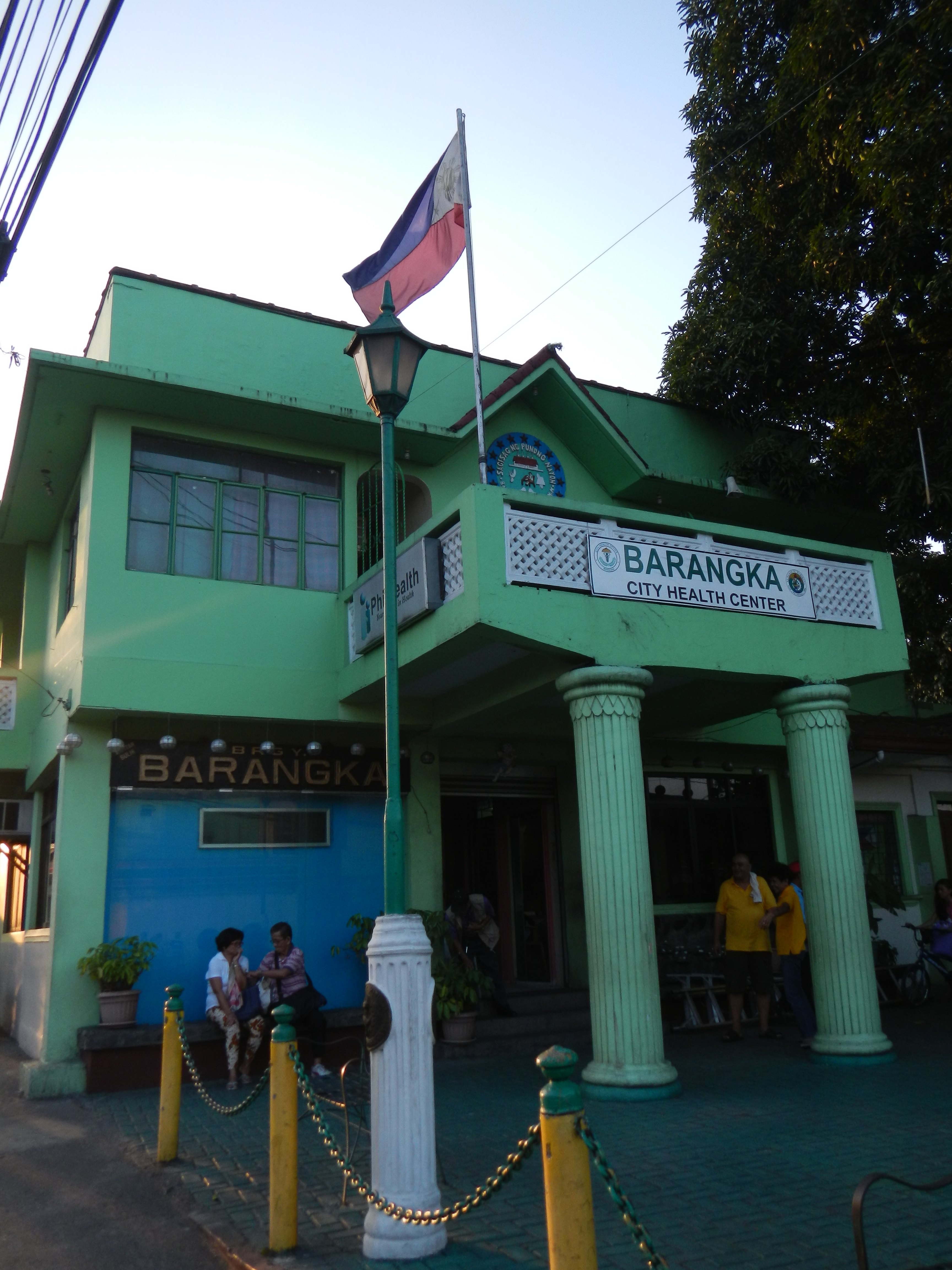 Upload Wizard photos of Marikina City [1] - )Barangay Barangaka, Marikina City, Hall [2] Complex, School and Centre of Commerce and Riverbank Center Mall[3]